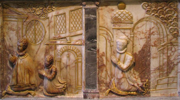 Detail of one of the Lumley family monuments in the Lumley Chapel, Cheam, Sutton, south London (formerly Surrey). These reliefs are believed to be the only surviving depictions of the interiors of Nonsuch Palace.